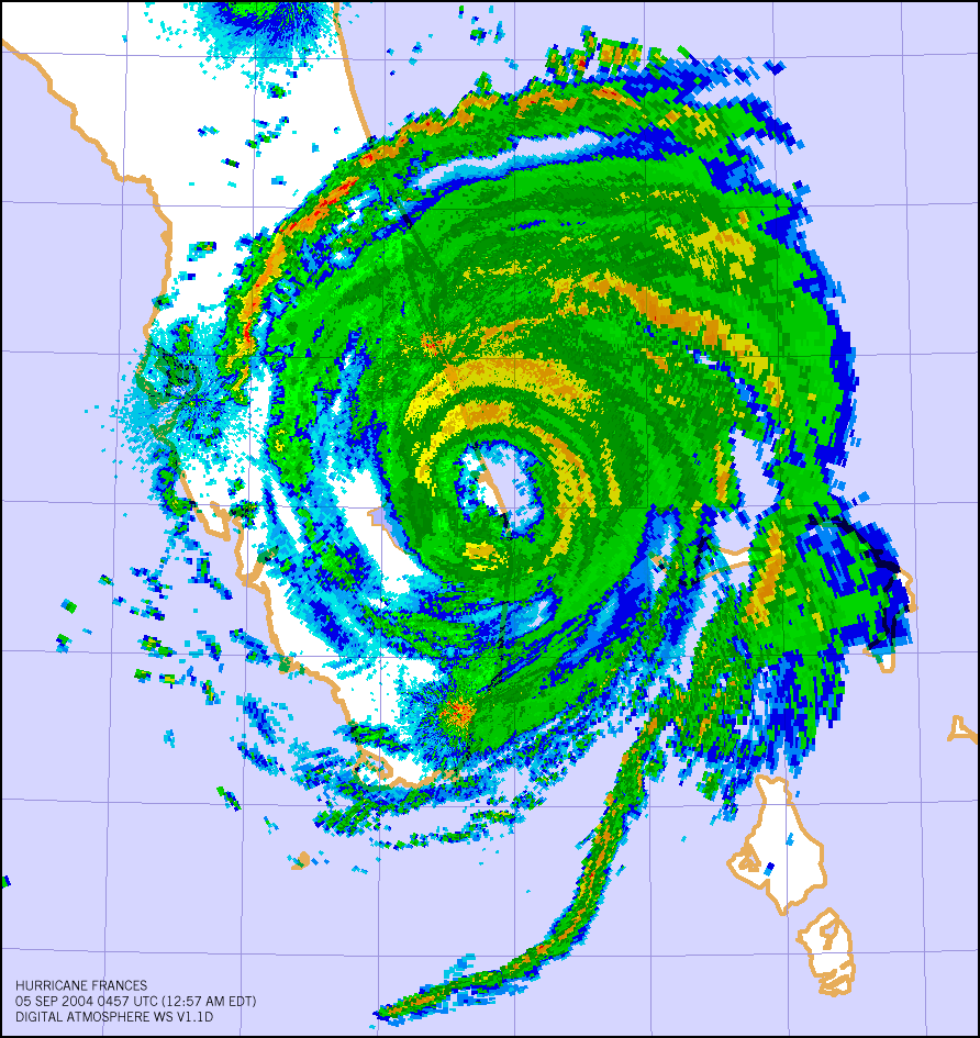 Radar mosaic of Hurricane Frances at 0457Z 05 Sep 2004 (12:57 am EDT). The northern eyewall was pushing into Vero Beach and Fort Pierce, while the southern eyewall passed over West Palm Beach. Prepared from WSR-88D NEXRAD data with Digital Atmosphere Workstation. Released into the public domain.